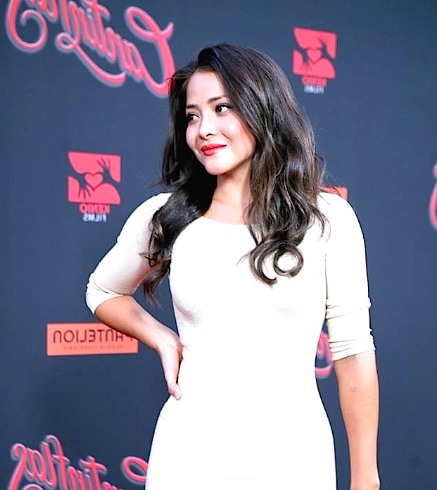 Teresa Ruiz at the Cantinflas LA Premiere, Chinesse Theater in 2014